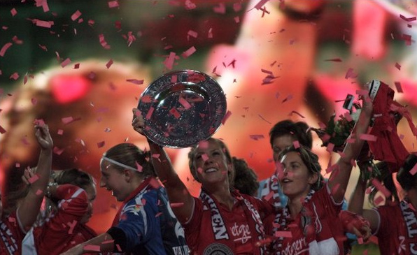 FC Twente women's squad champions 2010/11